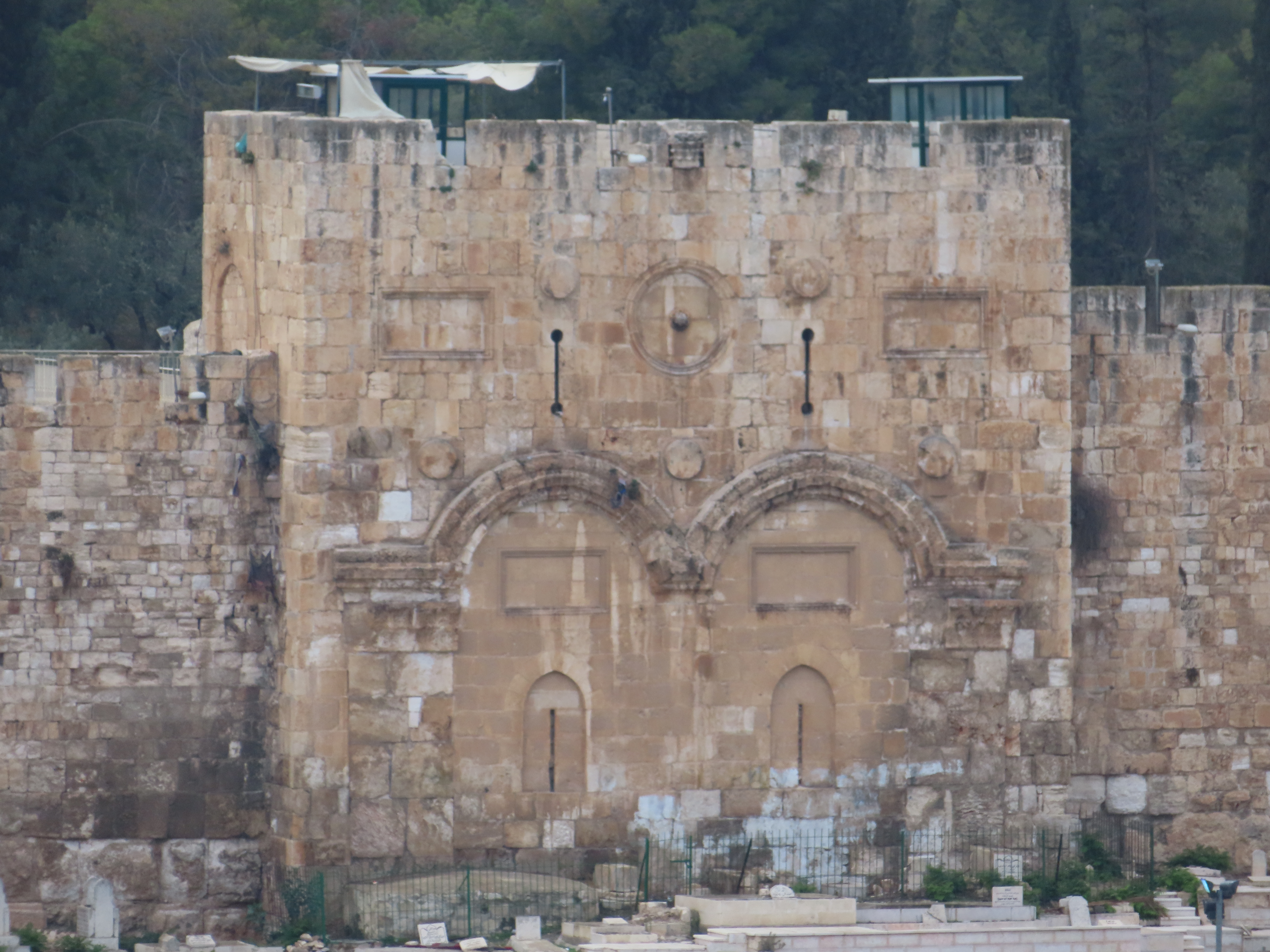 The Golden Gate from the Mount of Olives